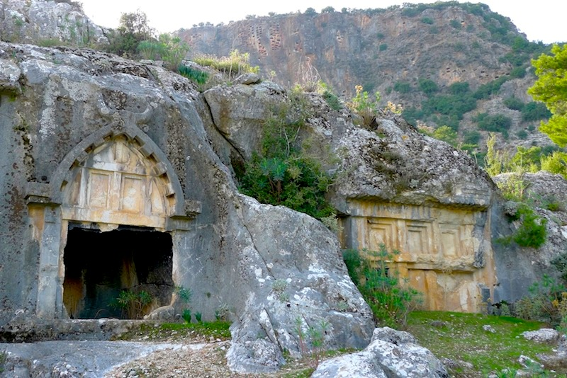 Pinara, Turkey